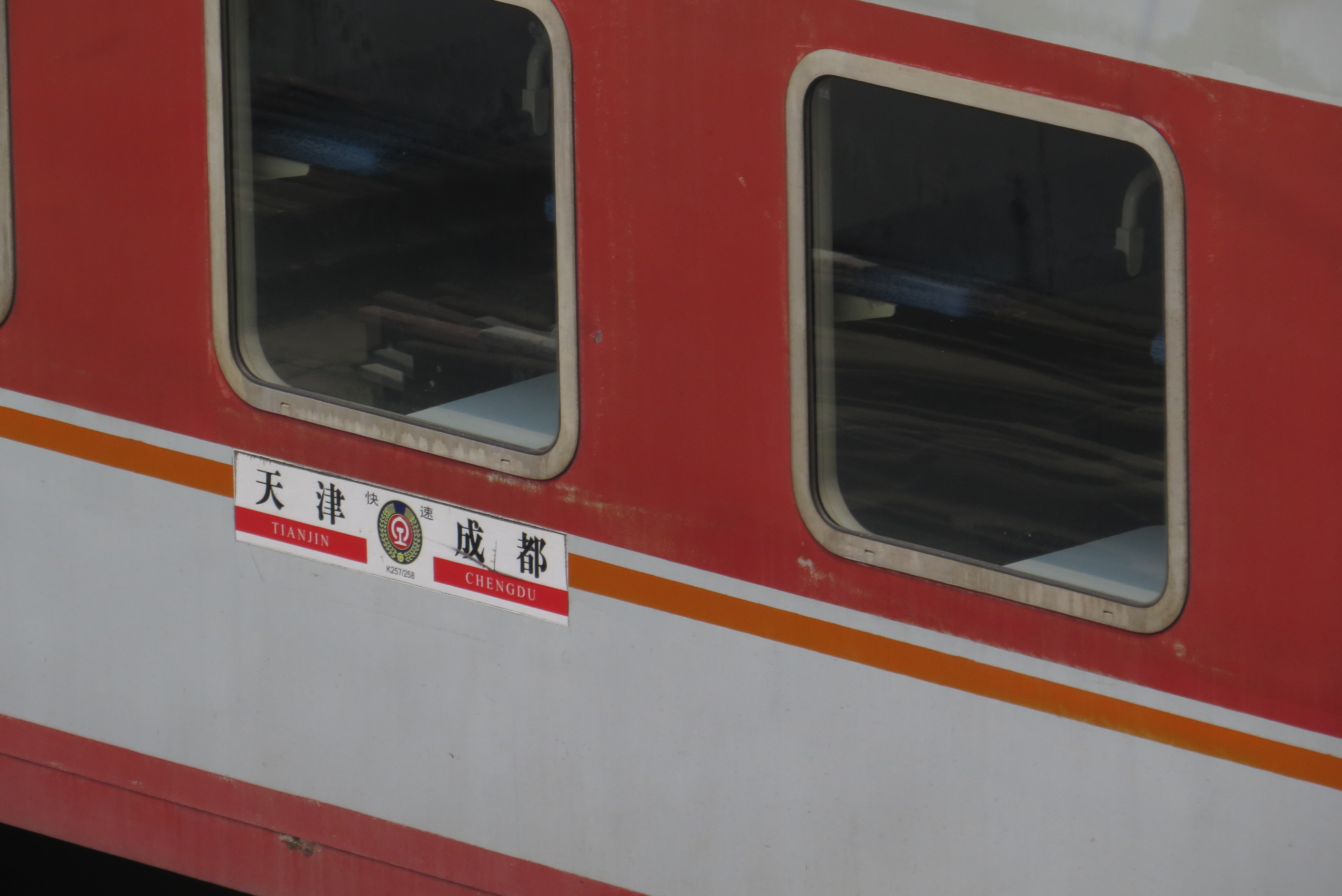 Tianjin to Chengdu...wait a minute! Why is it in Beijing?